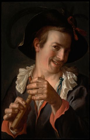 The present playful figure of a shepherd represents the Arcadian fantasies which were in vogue in Utrecht in the 1620s. In pastoral literature, the roguish shepherd sings bawdy songs, but his pictorial counterpart is usually more decorous, although the flute played by our shepherd is certainly meant to convey erotic overtones.